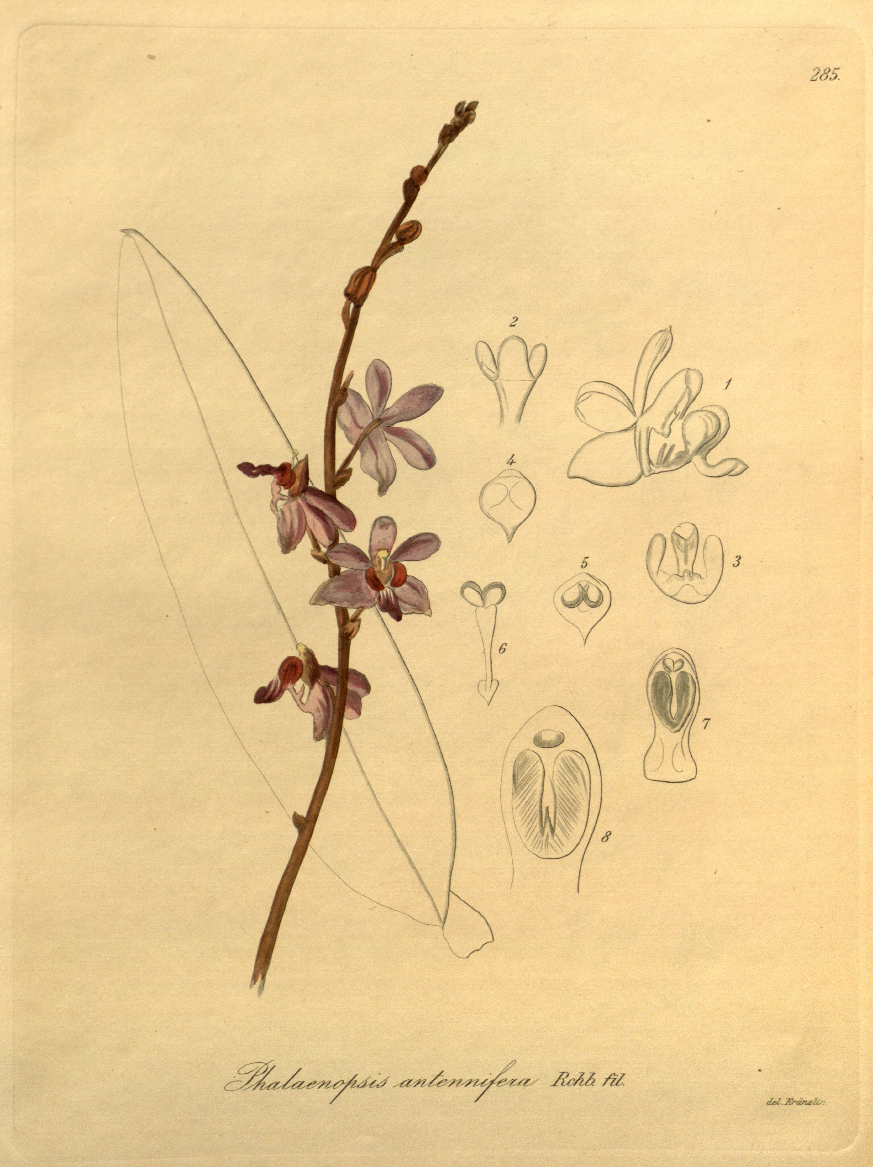 Illustration of Phalaenopsis pulcherrima (as syn. Phalaenopsis antennifera)